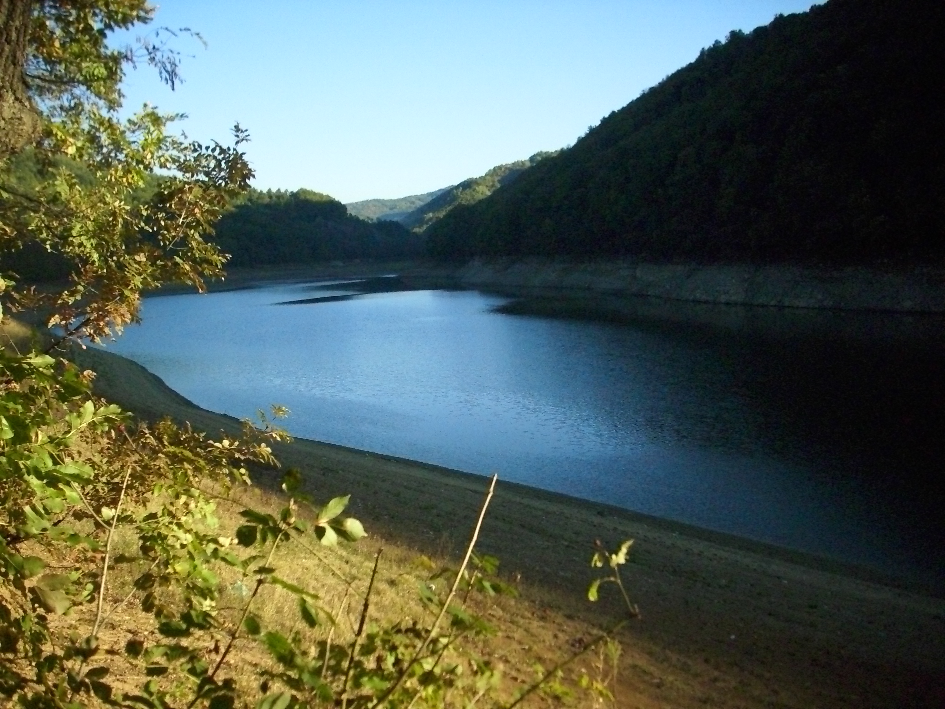 Grošničko lake